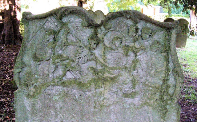 A Gruesome Tombstone, Ardingly, West Sussex, England.